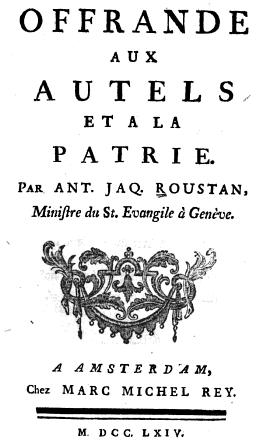 Title page of Offrande aux autels et à la patrie by Antoine-Jacques Roustan